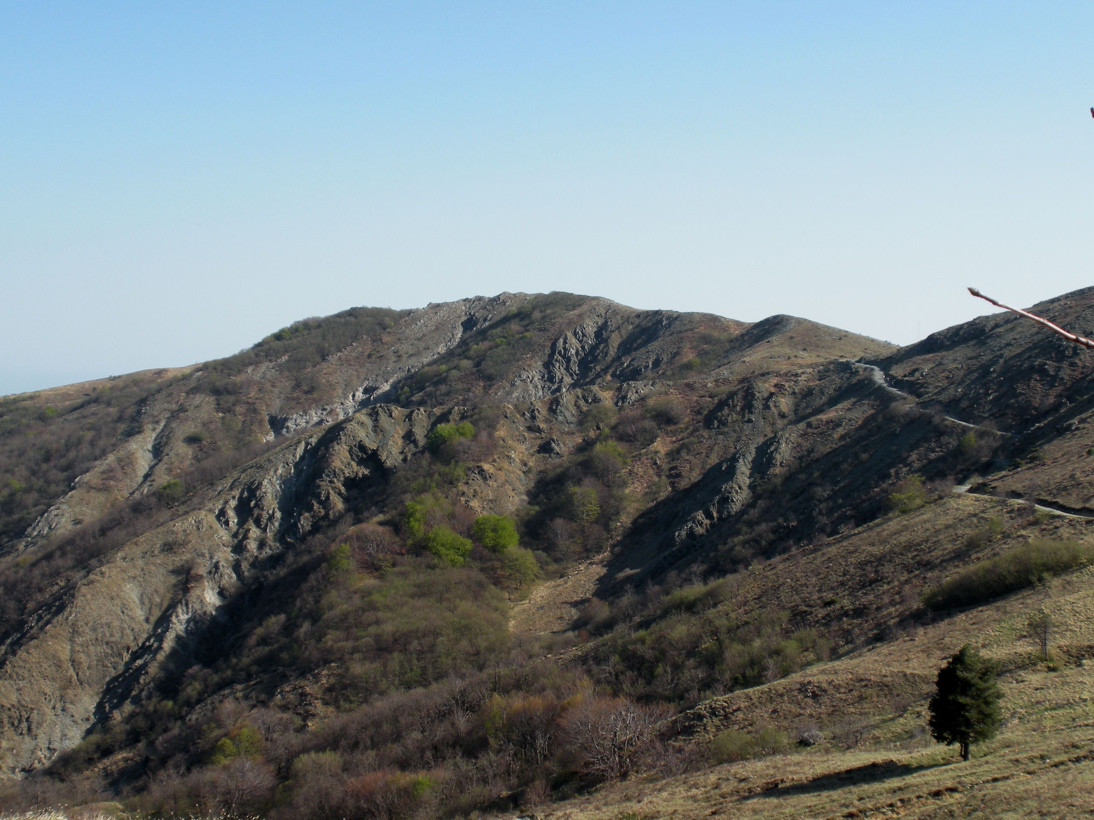 Ceranesi, province of Genoa, Italy, Mount Proratado